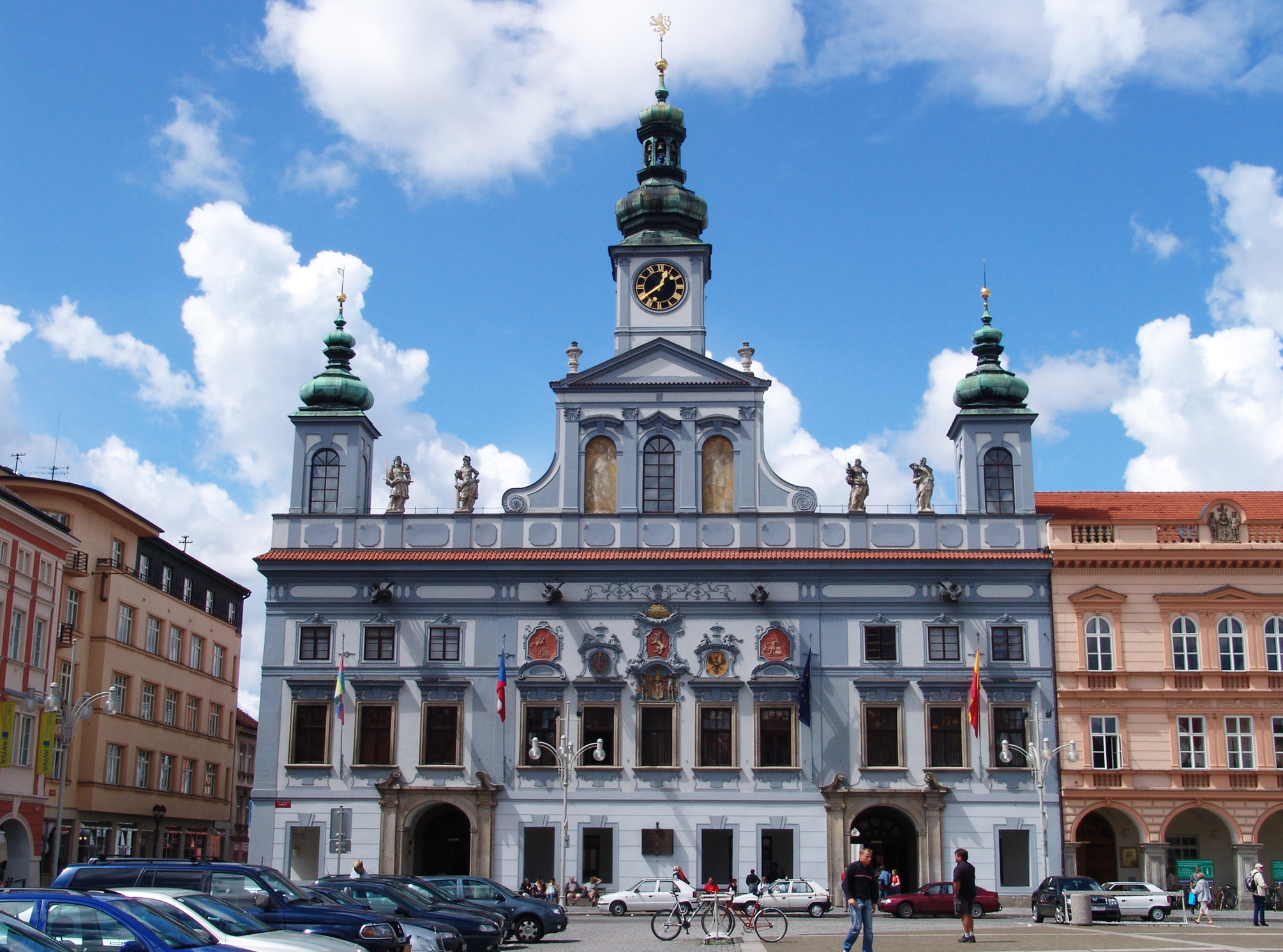 České Budějovice Town Hall, Czech Republic